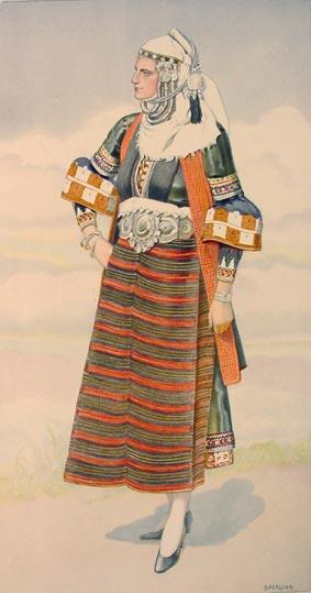 Greek Macedonian Peasant Woman's Dress (Macedonia, Asvestochori) - Greek Costume Collection by NICOLAS SPERLING (Russia 1881-1940 / act: Athens).